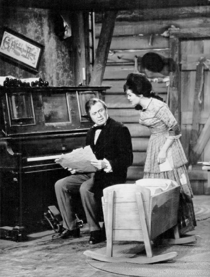 Photo of Jack Benny as songwriter Stephen Foster and Connie Francis as his wife in a skit for the television program The Jack Benny Program. The skit storyline is that Foster is unable to write a successful song and his wife nags him because of it.